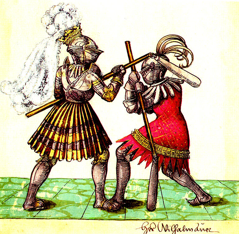 Freydal, fol. 83, Herr Wilhalm Awer